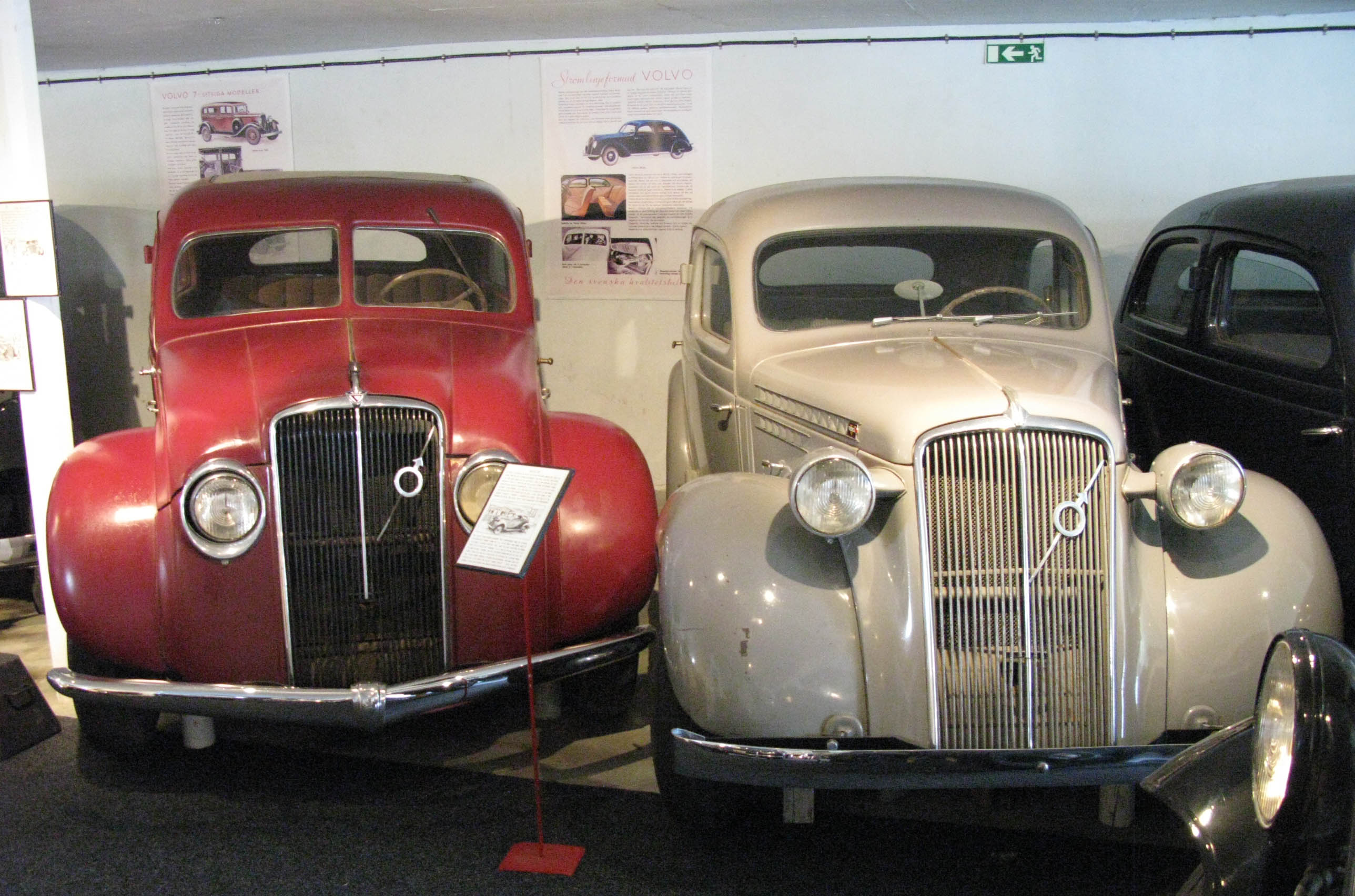 To the left: 1936 Volvo PV36 Carioca; to the right: 1937 Volvo PV52.